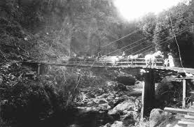 The ﬁrst Ngakawau River suspension bridge showing timber being hauled by a horse tram